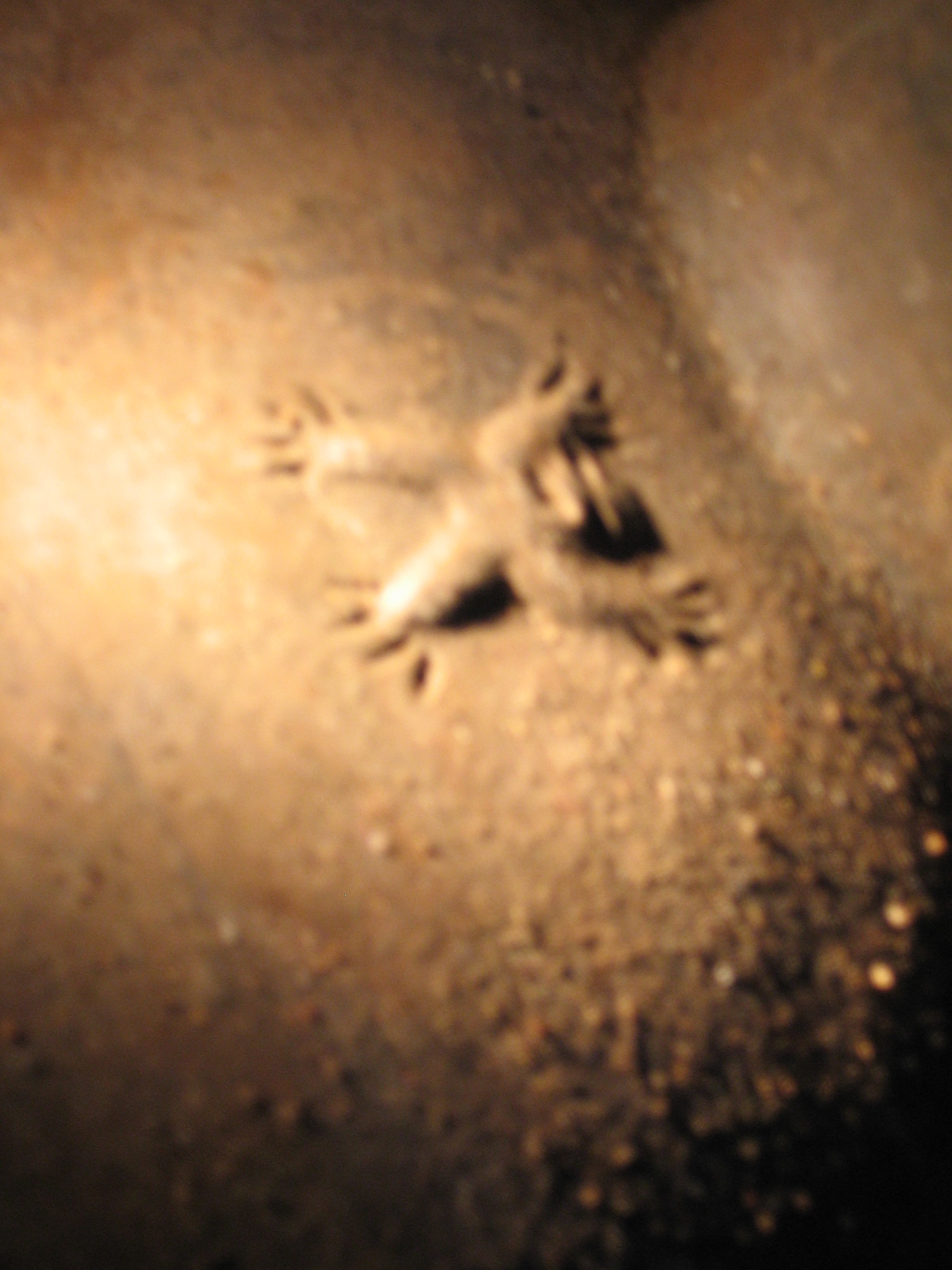 A small relief figure on a Classic Period Maya Civilization olla (water) jar in Actun Tunichil Muknal Cave, Belize. The figure lacks thumbs and was described by a tour guide as a mythological Duende, though this is hyperbole due to the probable Spanish origin for the Duende myth in the Americas; this figure dates to at least 800 years before the conquest and may depict a monkey.